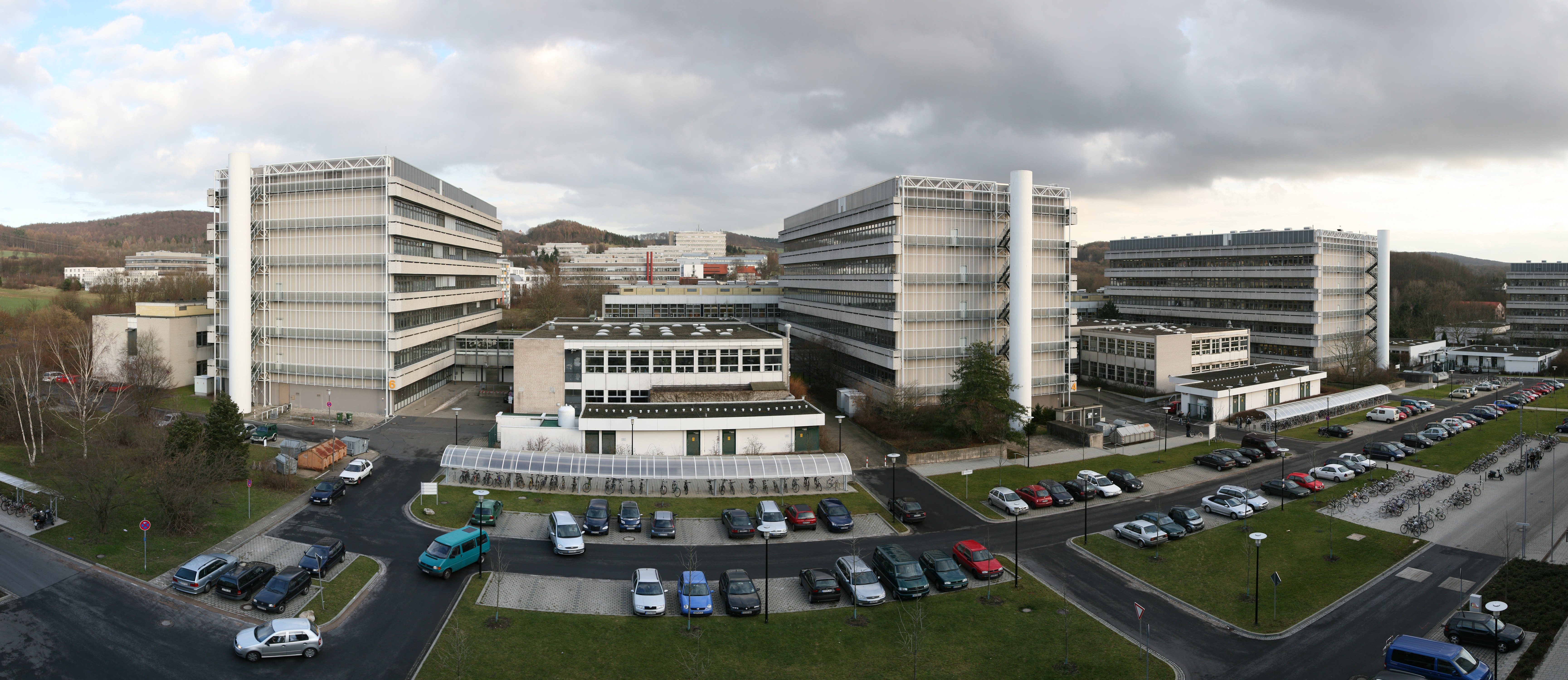 Chemistry department, University of Göttingen